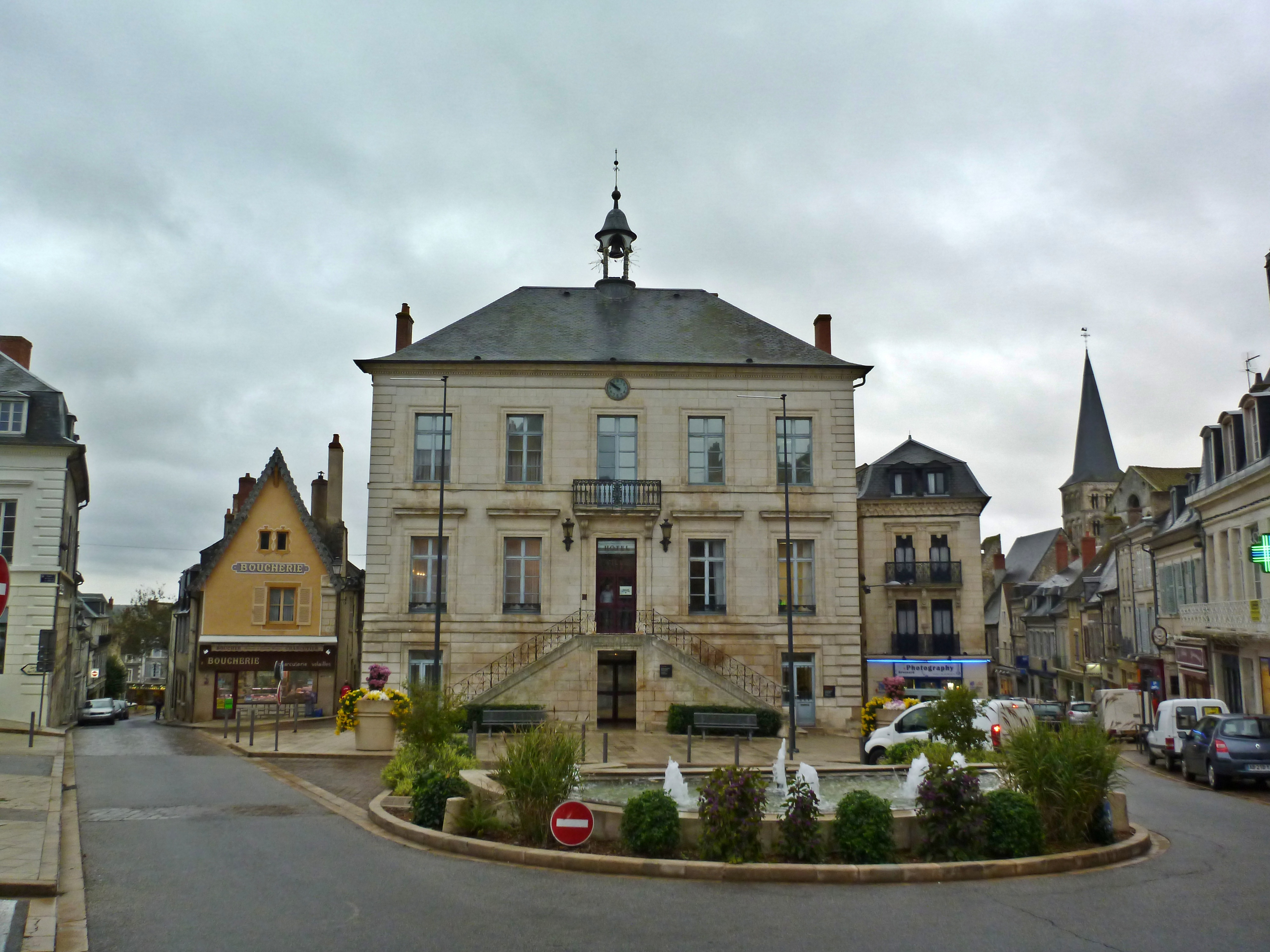 City hall from La Charité-sur-Loire